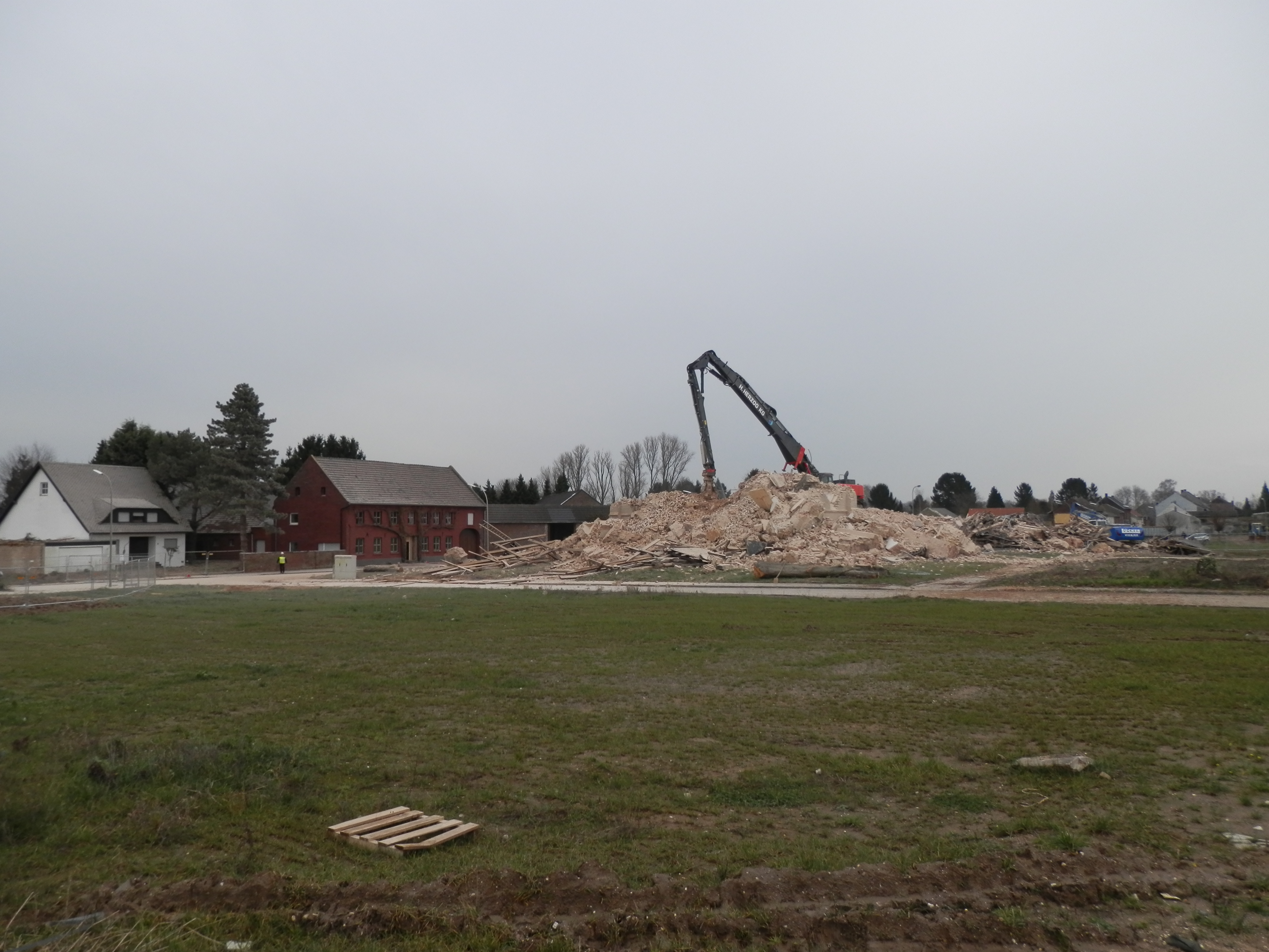 Immerath St. Lambertus